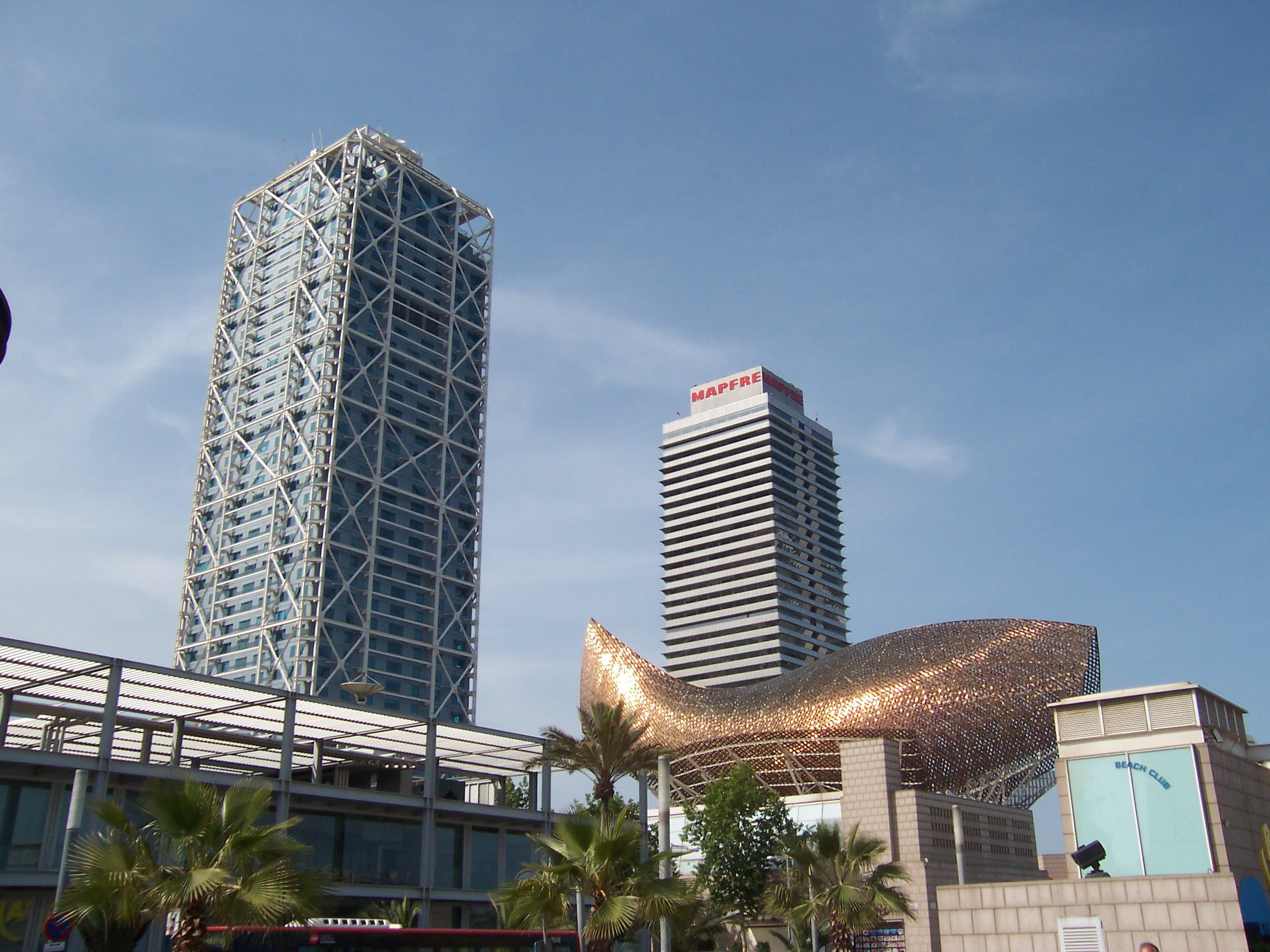 Olympic Village, in Barcelona.